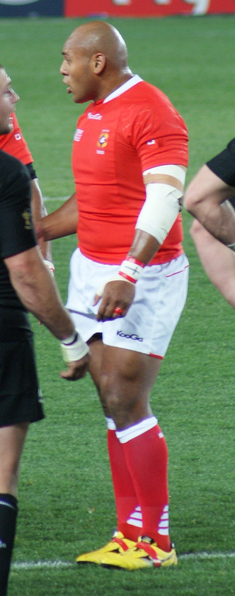 Tongan rugby union player Soane Tonga'uiha during 2011 Rugby World Cup opening match against New Zealand.